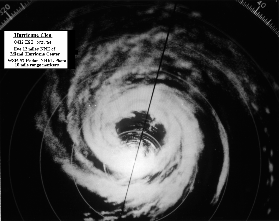 Miami radar image of Hurricane Cleo making Florida landfall on August 27, 1964, at 4 a.m. EST.